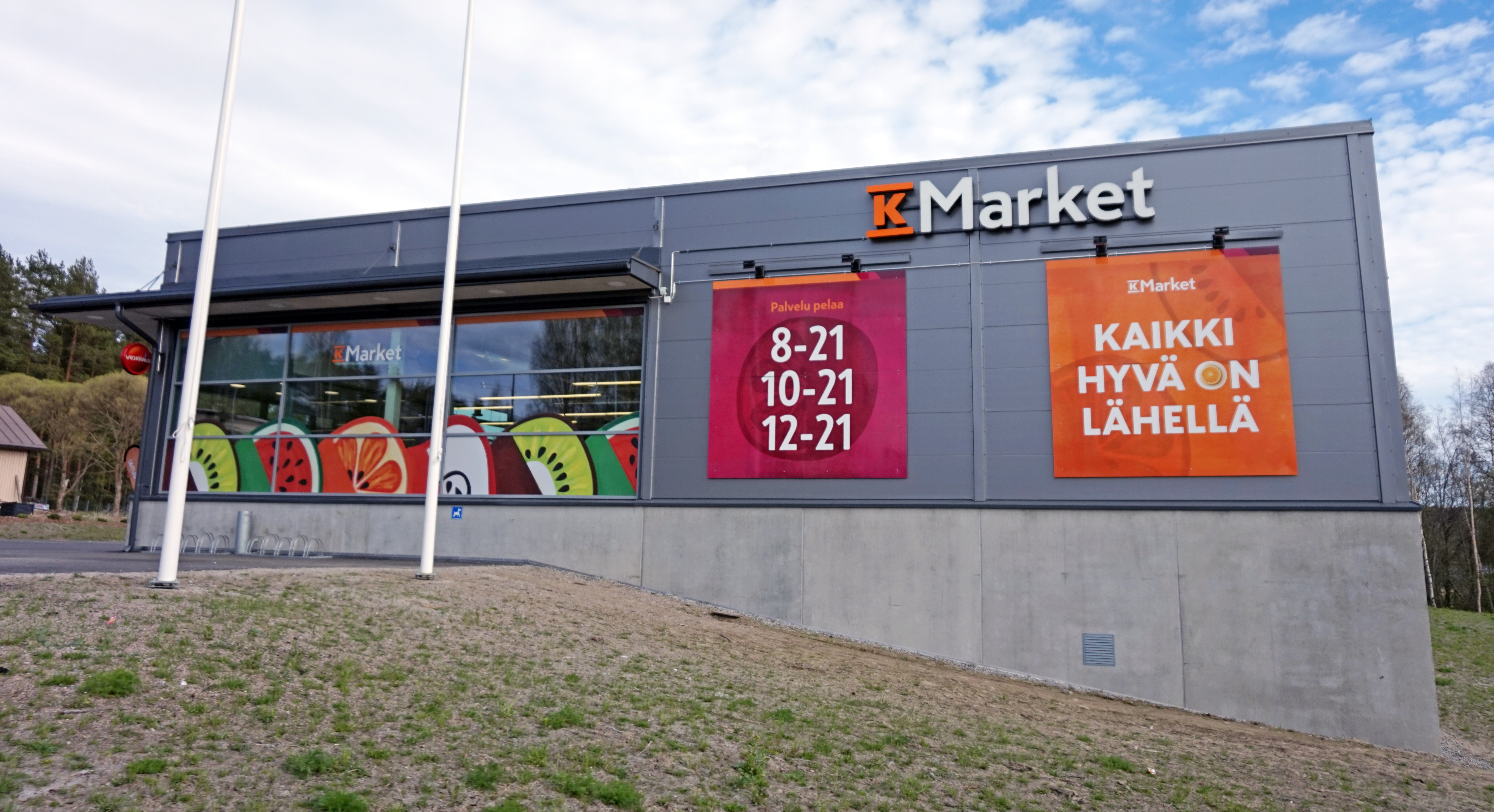 K-Market Kinkomaa.This photograph was taken with a Sony ILCE-5000